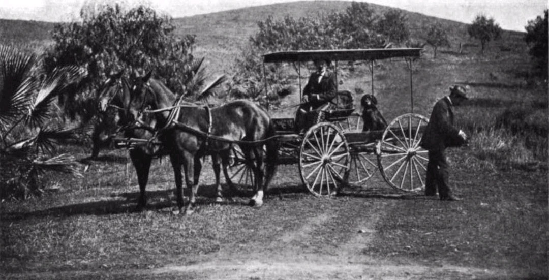 This photo was published opposite page 14 of California Highways, A descriptive record of road development by the state and by such counties as have paved highways, 1920, written by Ben Blow. It is captioned as follows: The Bureau of Highways, R. C. Irvine in buckboard, J. L. Maude with camera, and Maje, Mr. Irvine's Gordon setter. Picture taken in Riverside County in 1896.